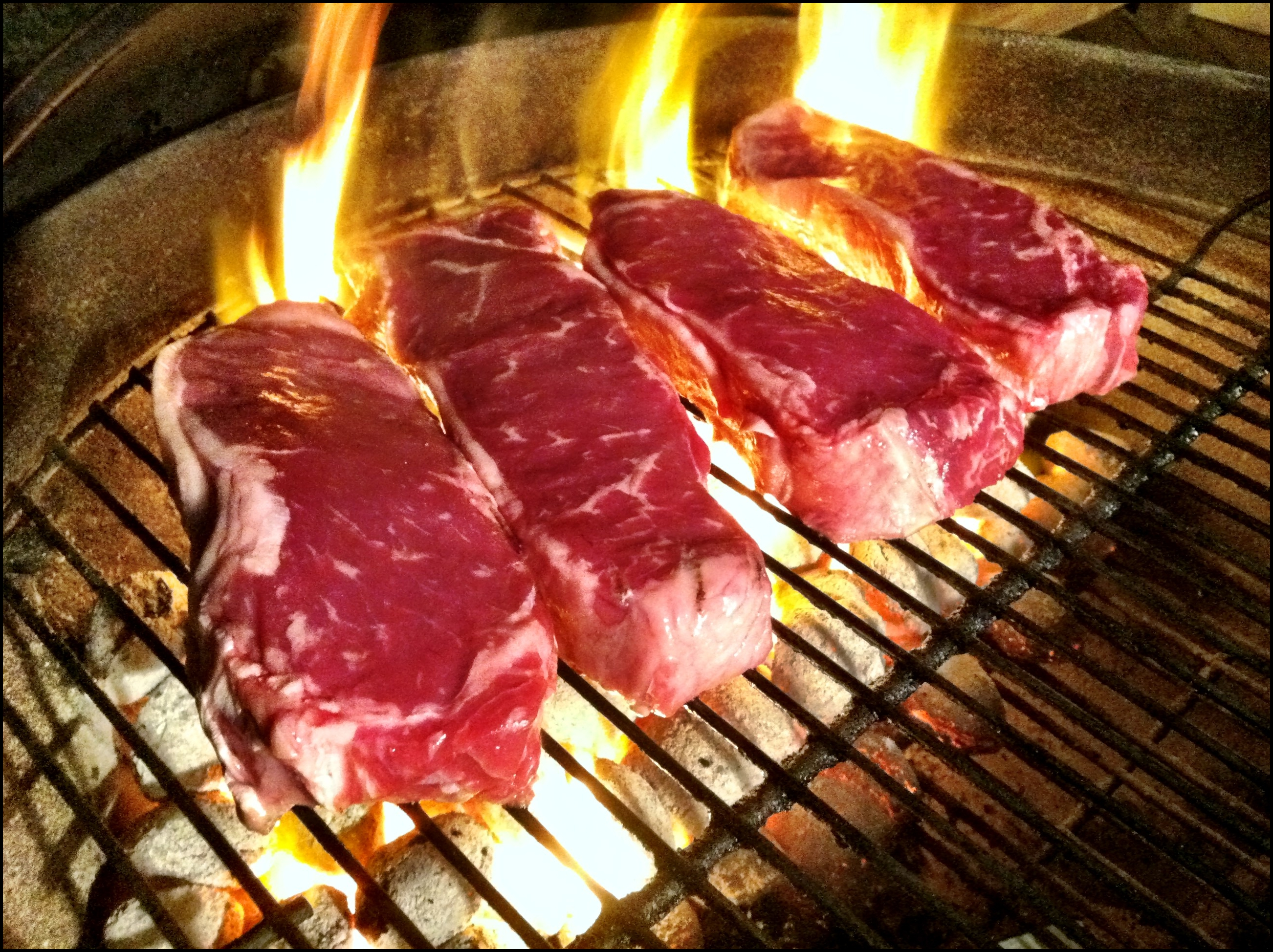 365 Days Project 188/365: Saturday Night Grilling